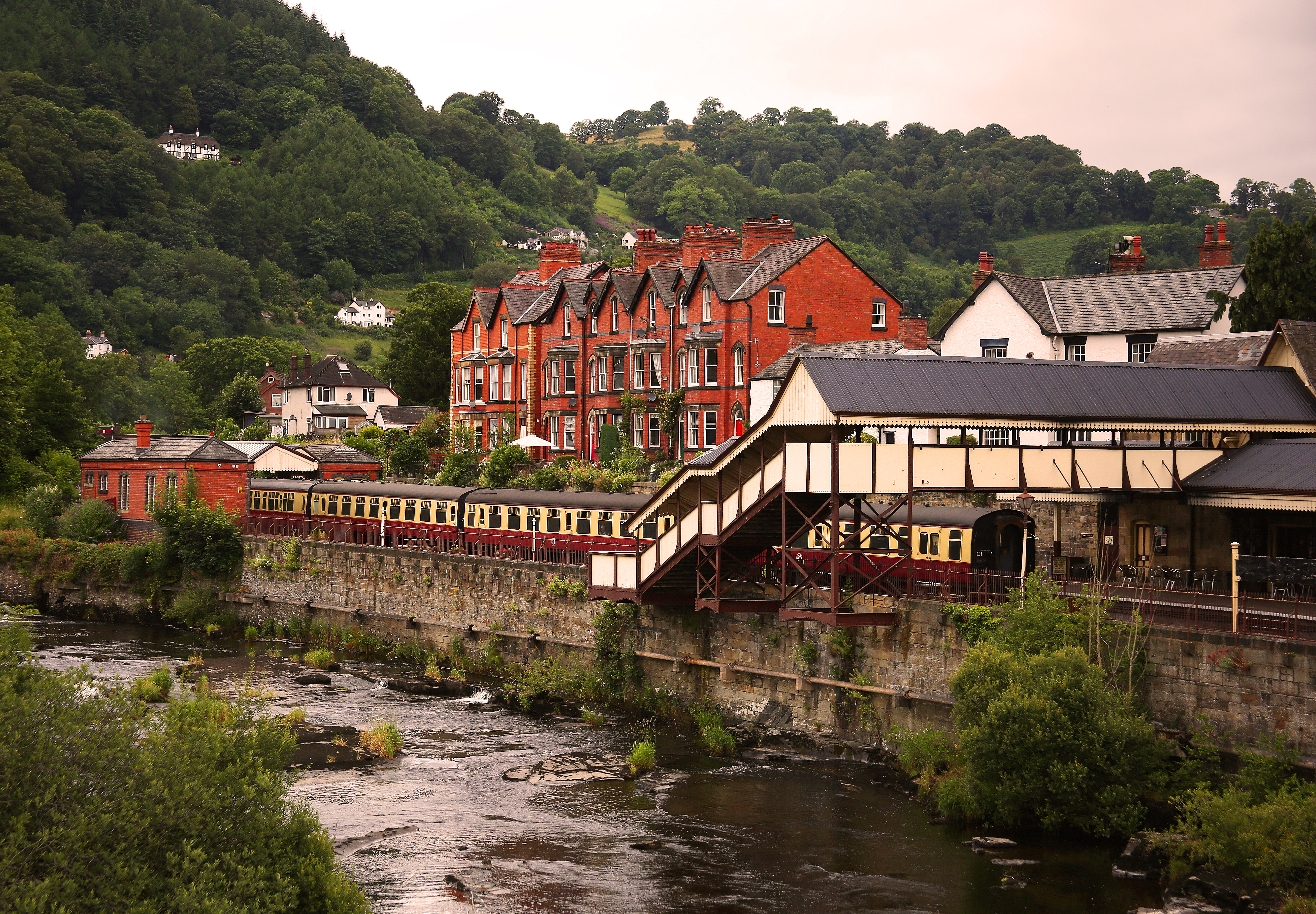 Llangollen, Wales Station sits along the River Dee.